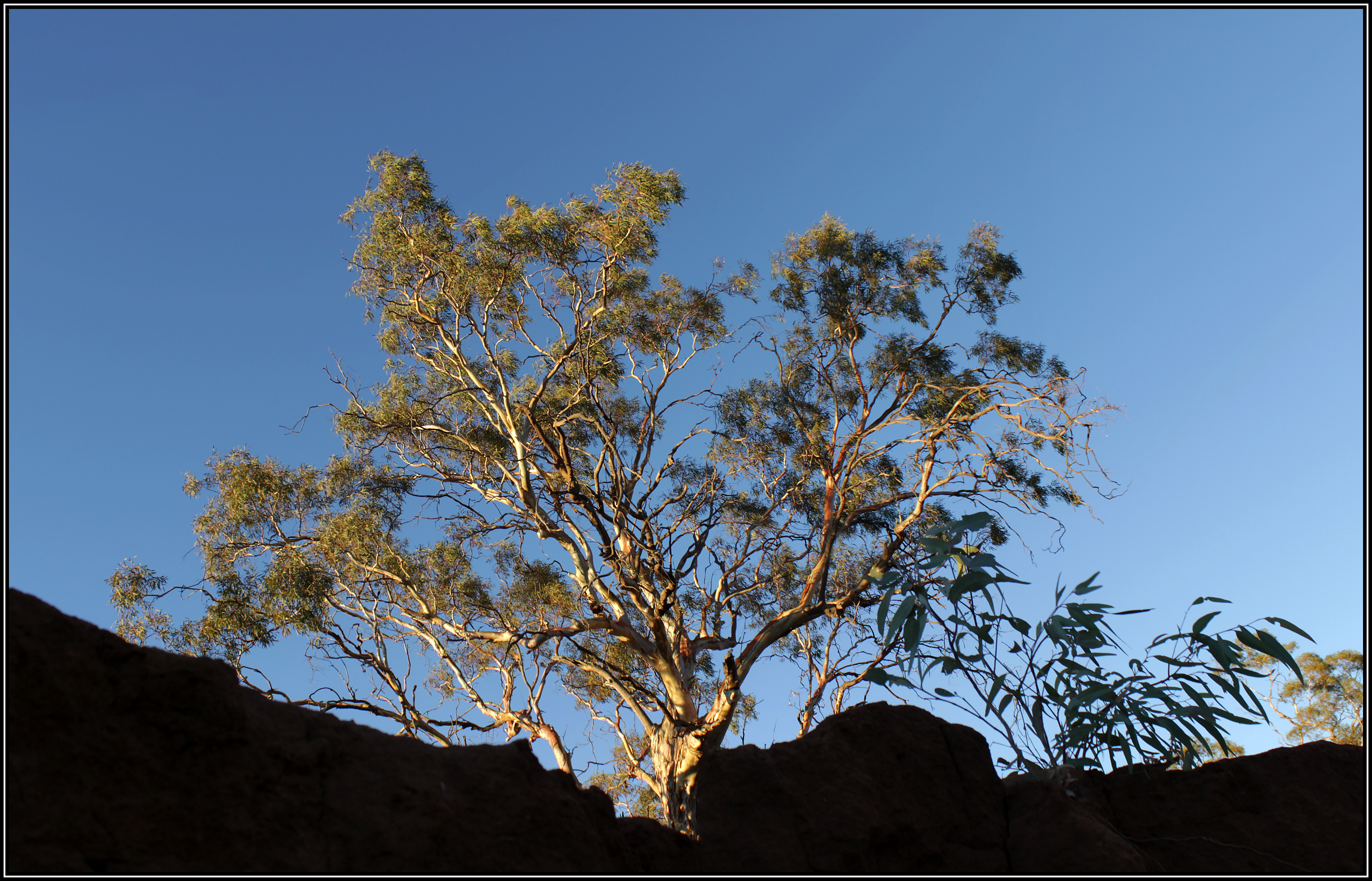 Mutawintji National Park, a river red gum glows in dawn light, 2013. Peter Neaum.